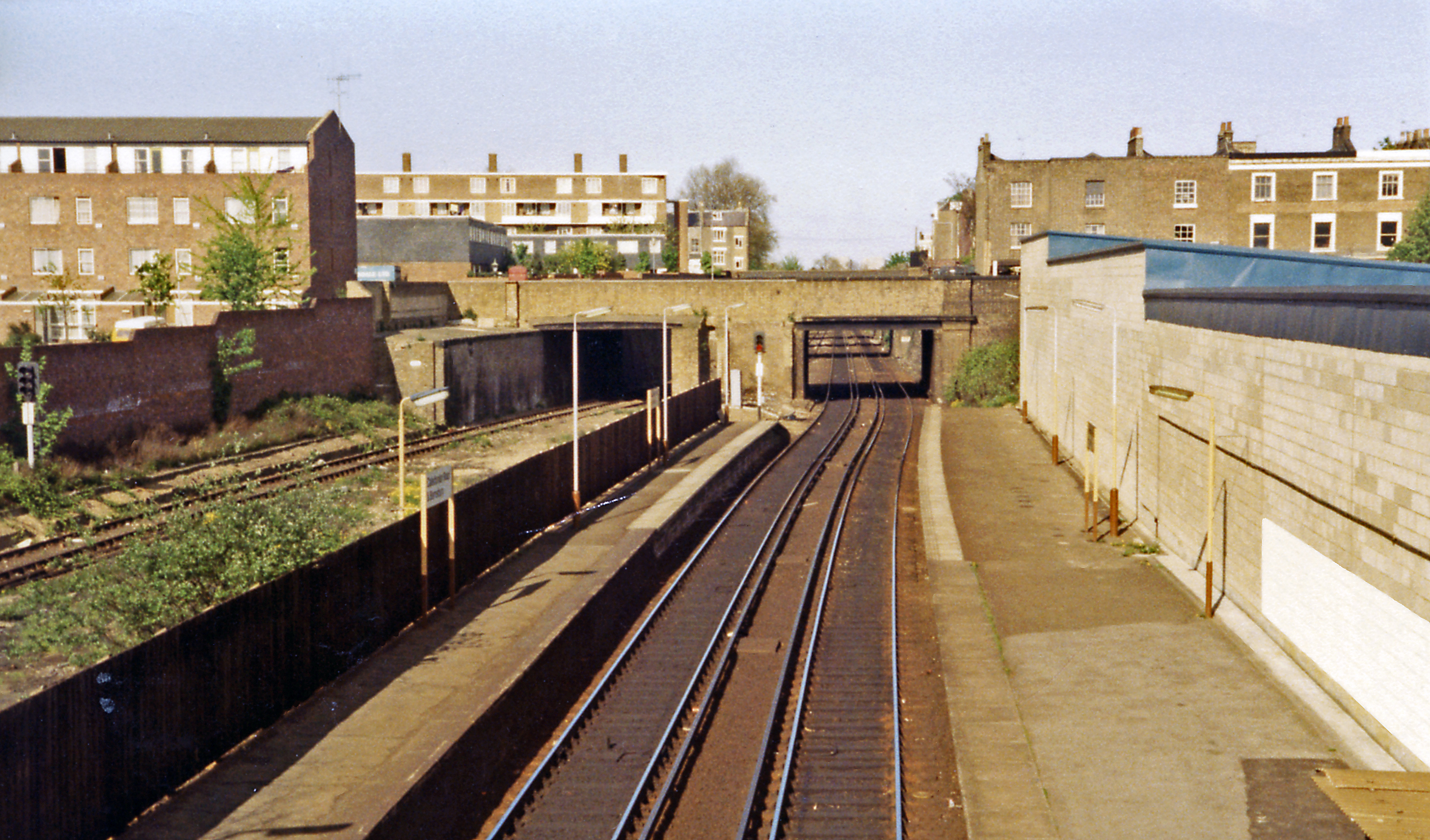 Caledonian Road & Barnsbury station, 1984. View eastward, towards Dalston Junction, Broad Street and East London: ex-North London line, from Camden Road, Willesden, Richmond etc., on the busy middle section of this key inter-regional artery, with the passenger service (from Broad Street) provided only on the No. 2 (south side) lines.